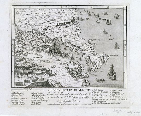 An Exact View of the City of Mahon, taken by the Spanish army under the command of his Excellency the Duke of Crillon, in August 1781; engraving